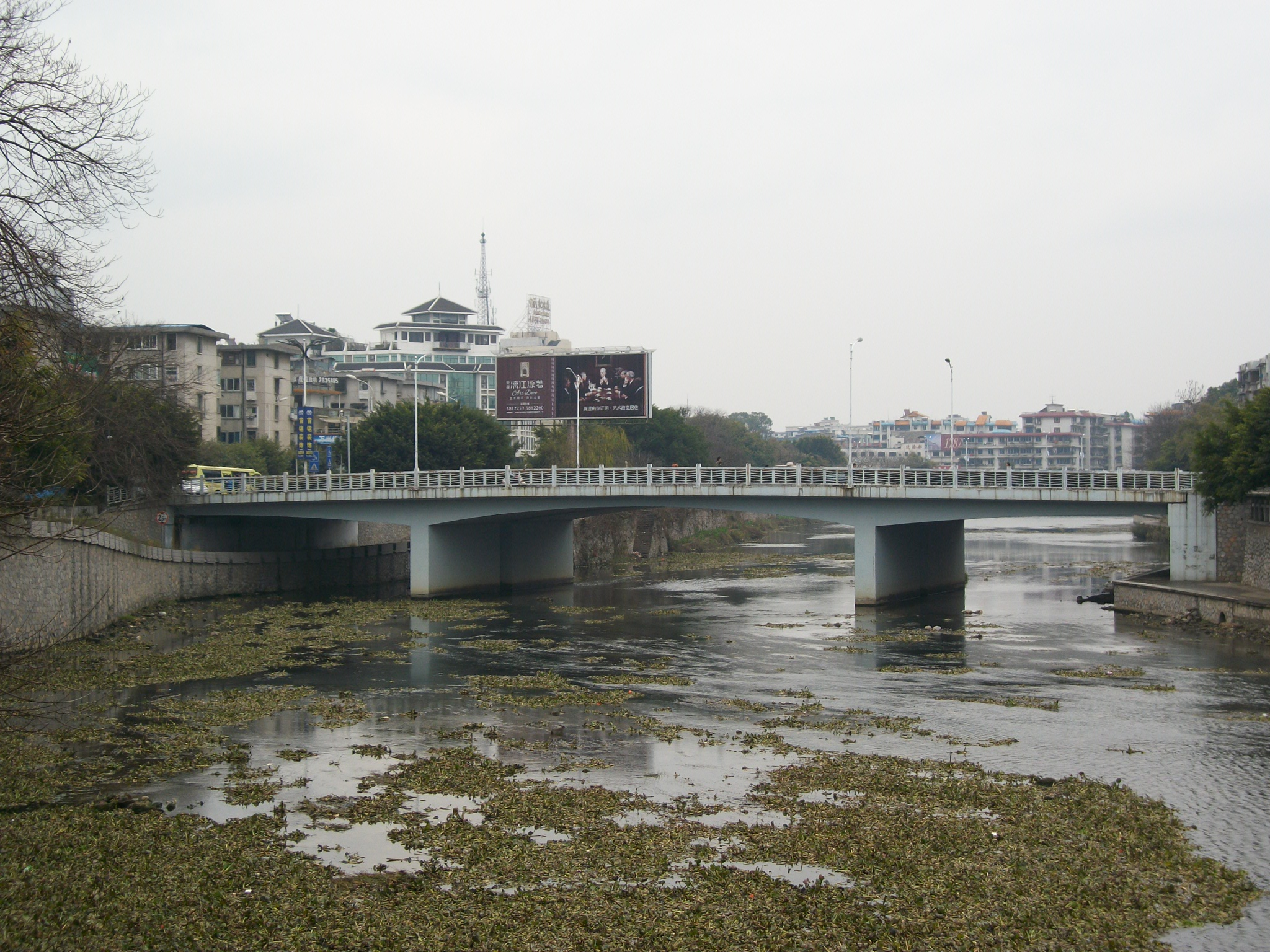 Ningyuan Bridge, Guilin.